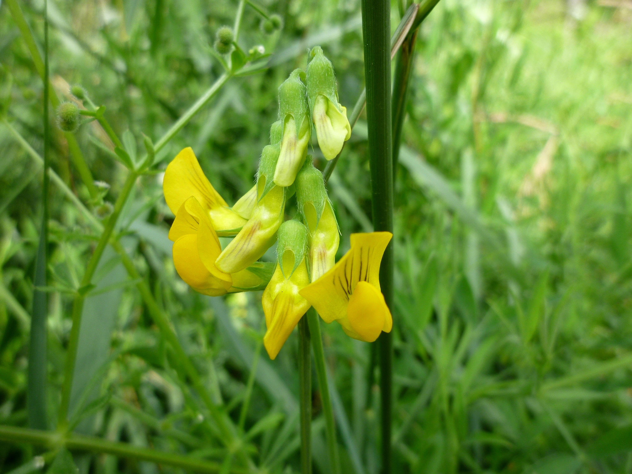 Lathyrus pratensis. In Torà (Segarra - Catalunya). To 570 m. altitude